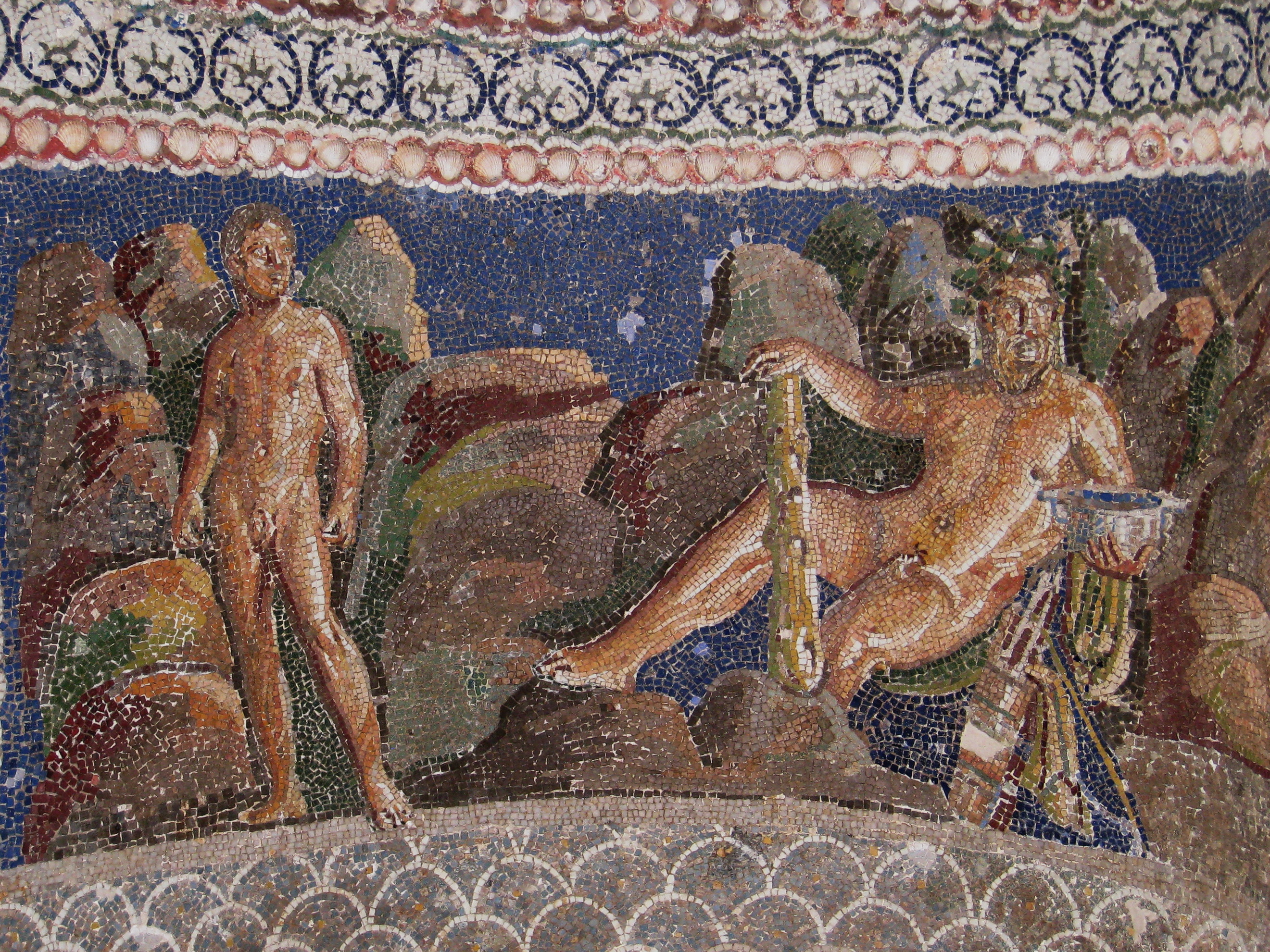 Hercules and Iolaus, Fountain mosaic from the Anzio Nymphaeum, Museo Nazionale Romano, Palazzo Massimo alle Terme, Rome.